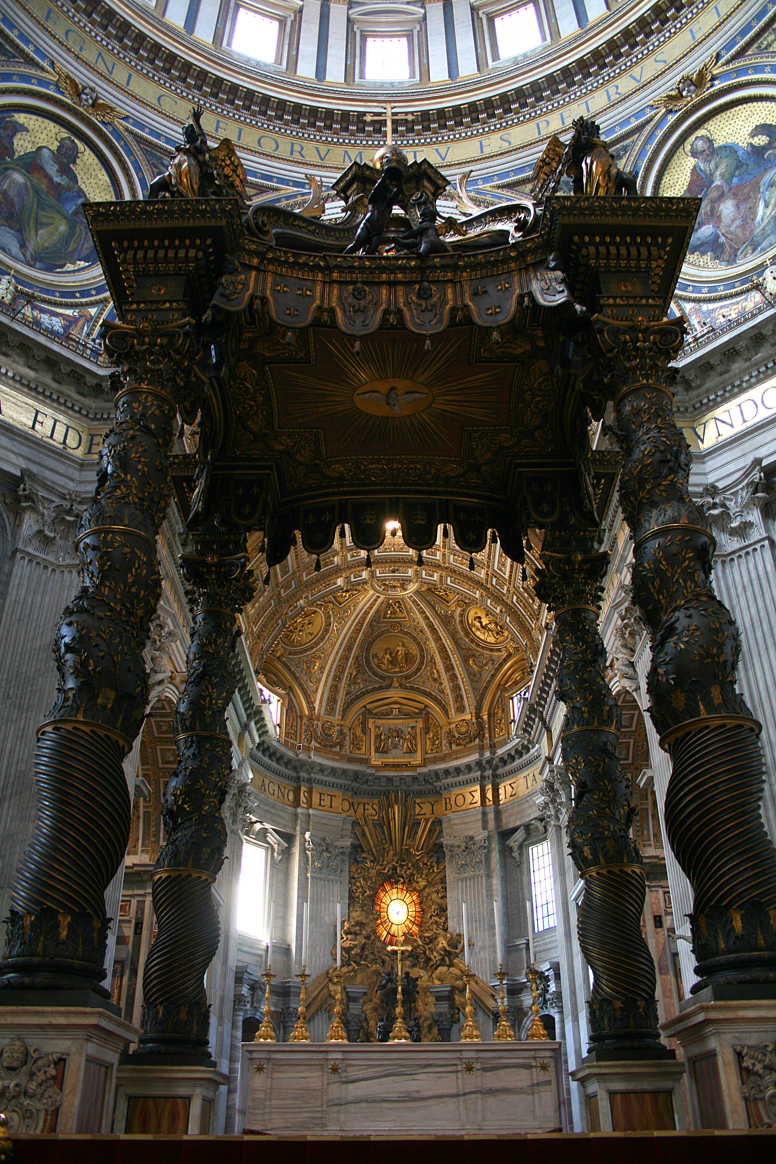 Baldachin and choir of St. Peter's Basilica, Vatican - Work of Gian Lorenzo Bernini (1598–1680).